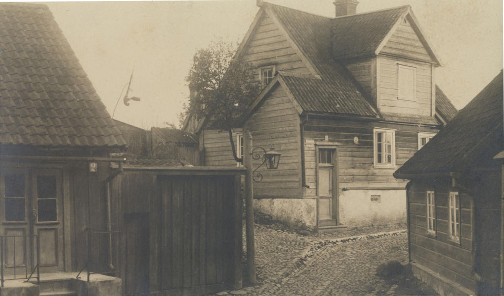 Oru street, Viljandi, ca 1915